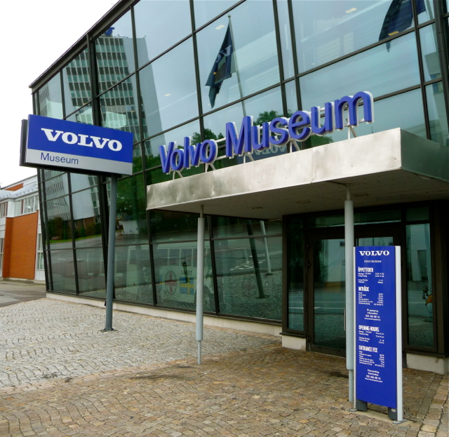 Entrance to the Volvo Museum — in Göteborg, western Sweden.